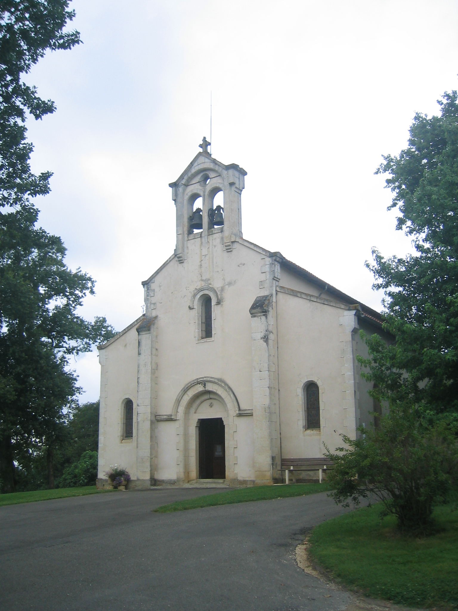 Église Miramont-Sensacq - the church in Miramont-Sensacq, France (Note: Picture has Geotag information stored in EXIF.)